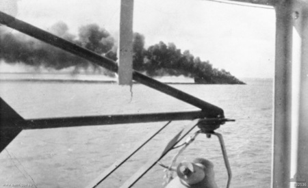 The U.S. Navy Clemson-class destroyer USS Peary (DD-226) burning heavily after a Japanese air attack at Darwin, Northern Territories (Australia) on 19 February 1942. The photo was taken from the hopital ship Manunda.